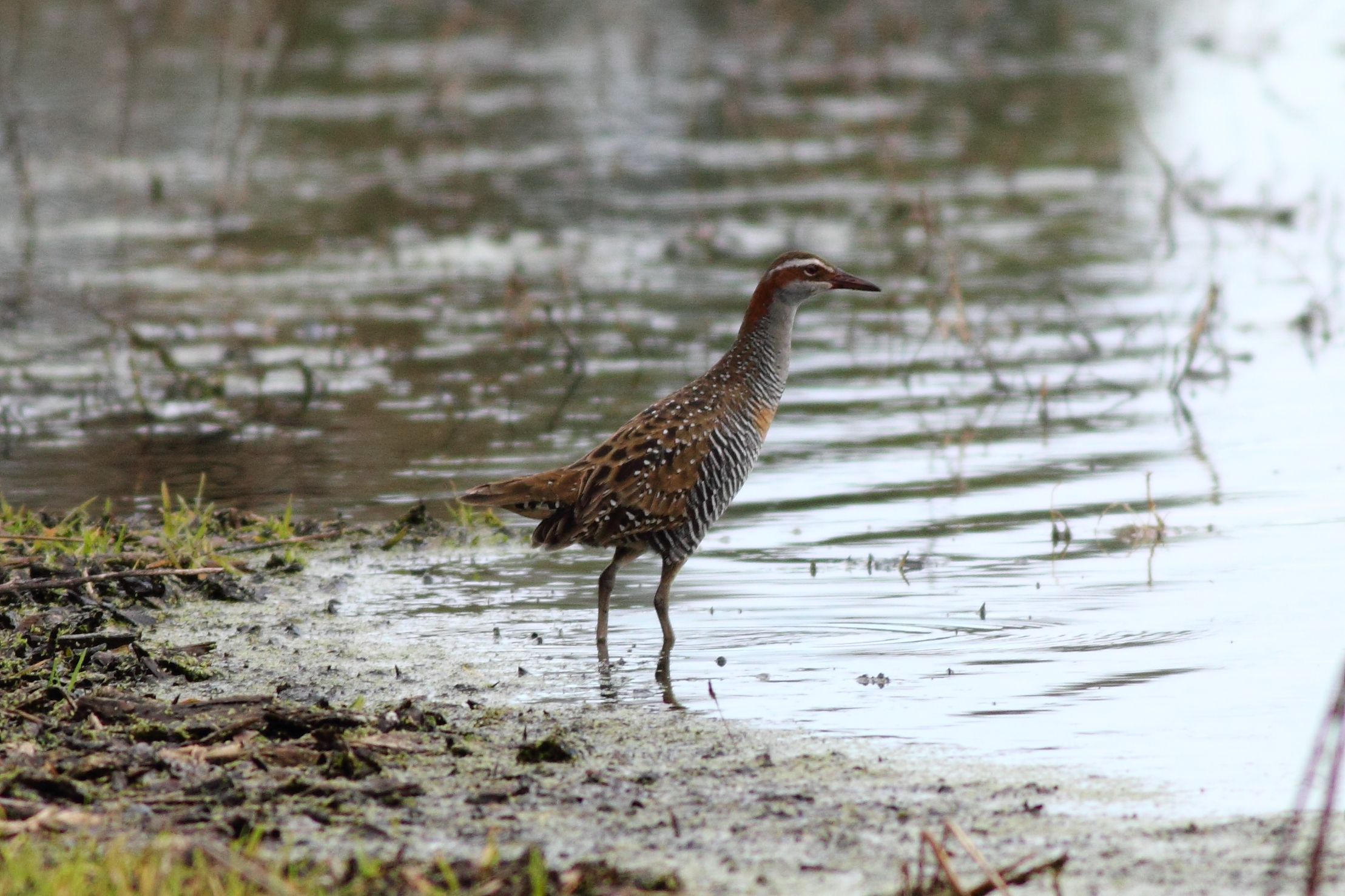 A Buff-banded Rail at Edithvale Wetlands, Melbourne, Victoria, Australia.